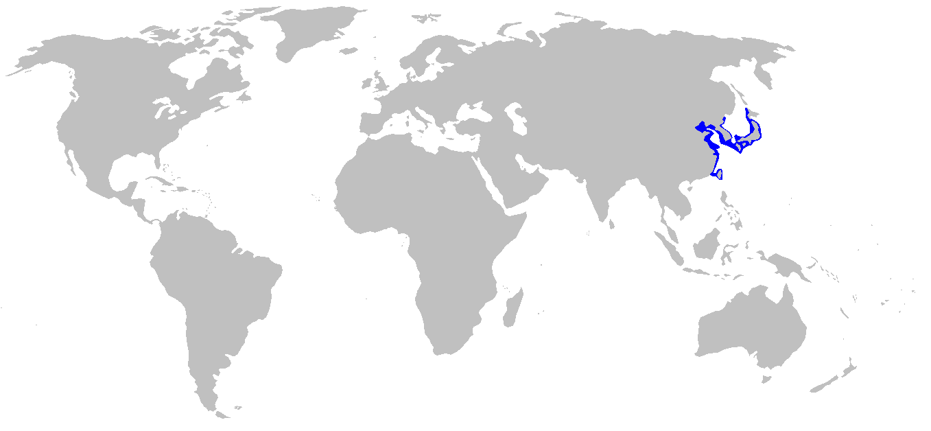 Distribution map for Heterodontus japonicus